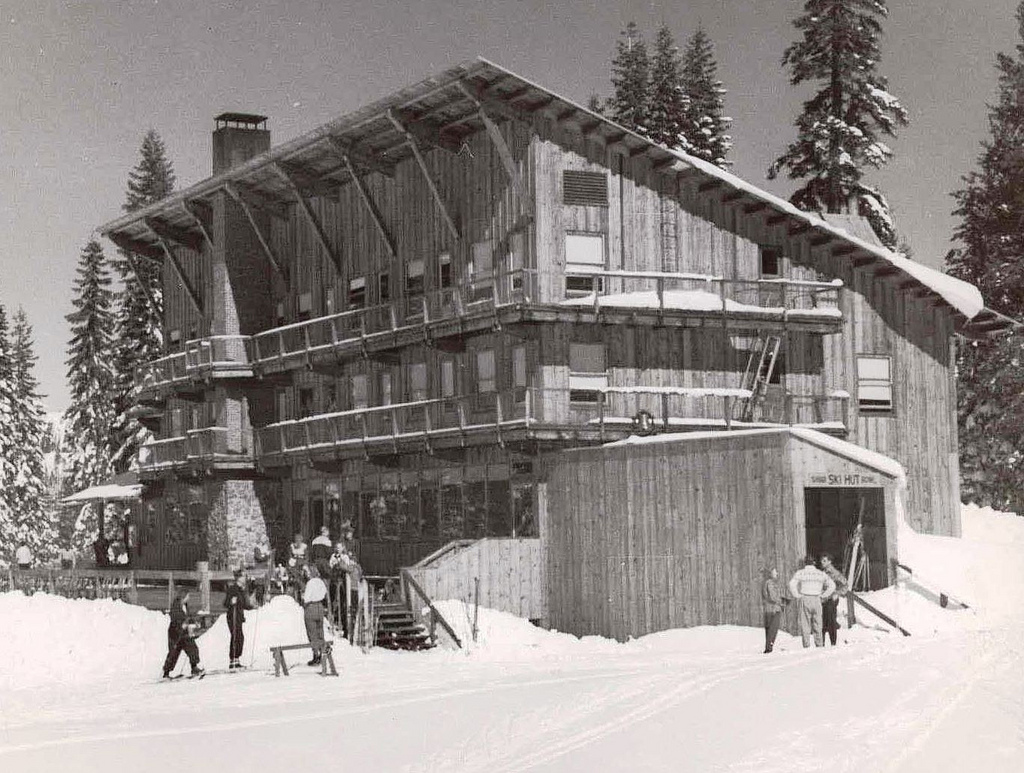 Sugar Bowl Ski Resort Early Lodge, Lake Tahoe California region